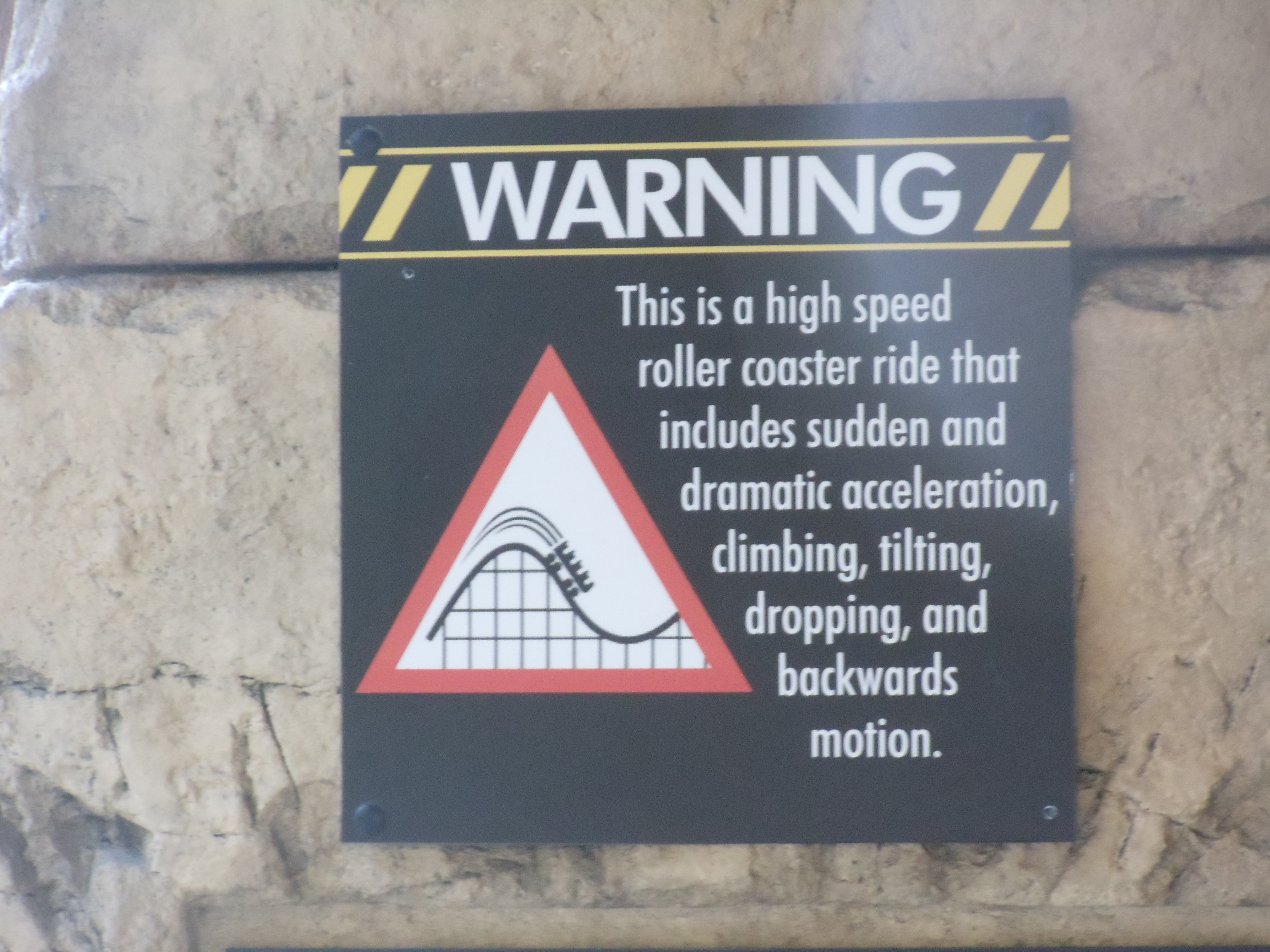 The Mummy's revenge is a indoor roller coaster. The 1 minute and 30 second ride coaster operates at 45 miles per hour. The warning sign says the ride includes backward motion.